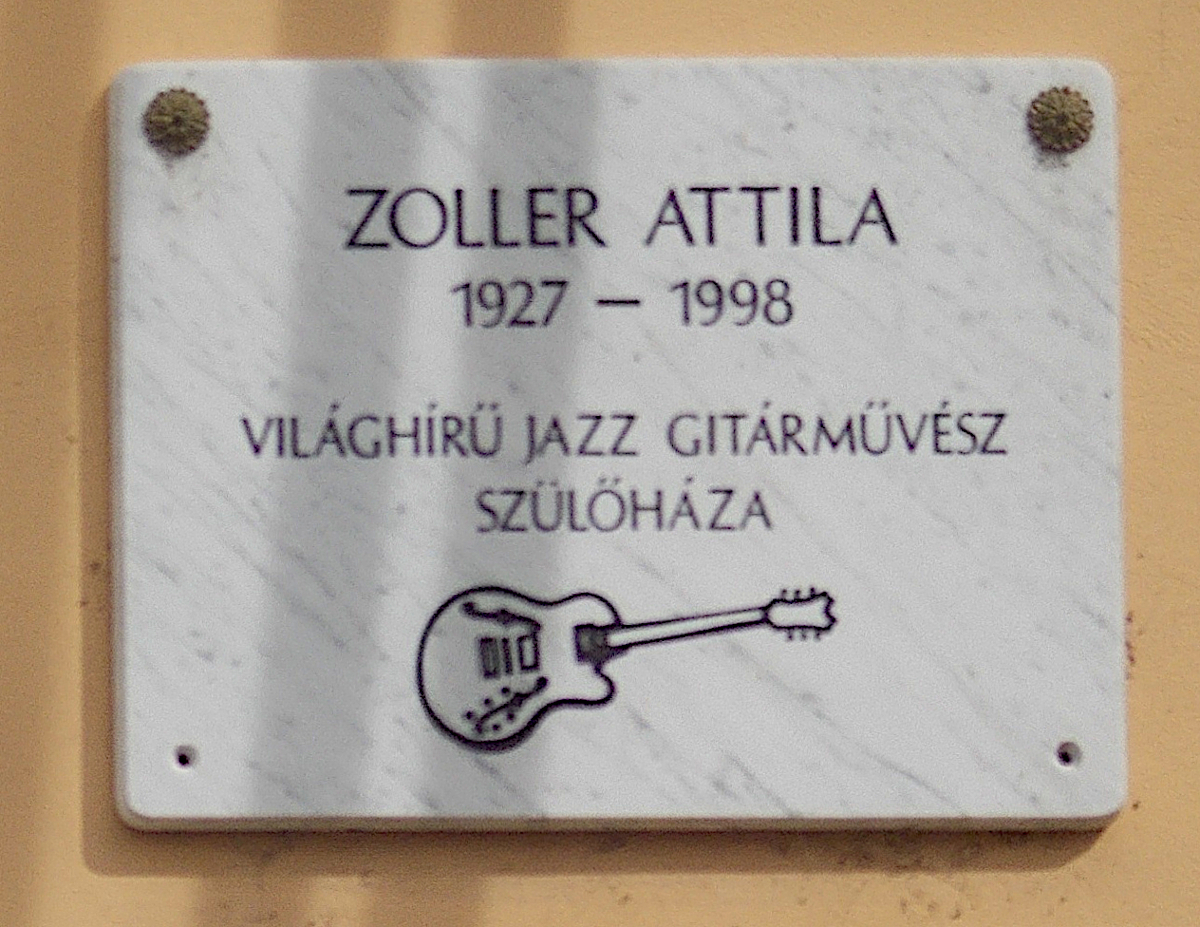 Zoller Attila jazz guitarist's birthplace plaque. Now Don Vito pizzeria - Fő street, Visegrád, Pest County, Hungary.